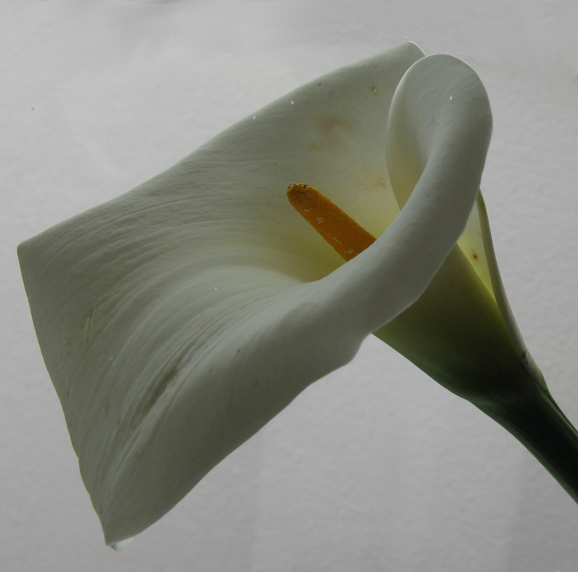 A single leaf or bract is said to be convolute when its one edge overlaps the opposite edge.